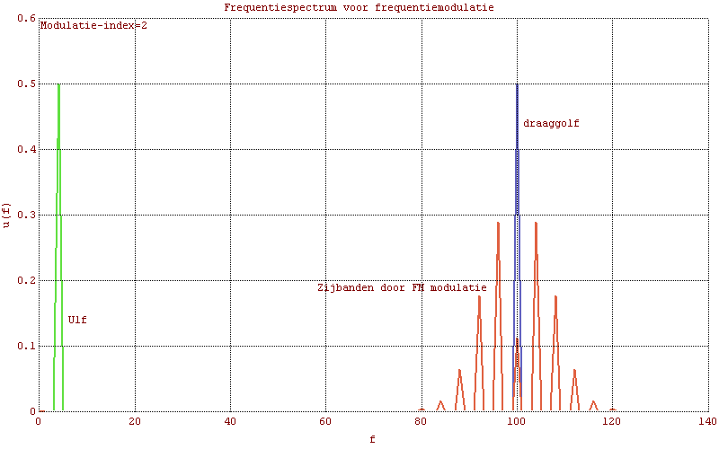 Frequency spectrum of a FM modulated carrier signal.